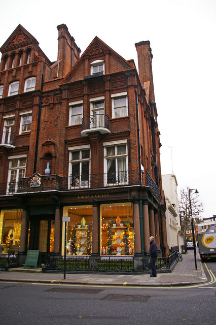 Thomas Goode, South Audley Street, London W1 Thomas Goode is a very up-market china shop on the corner of South Audley Street and South Street.